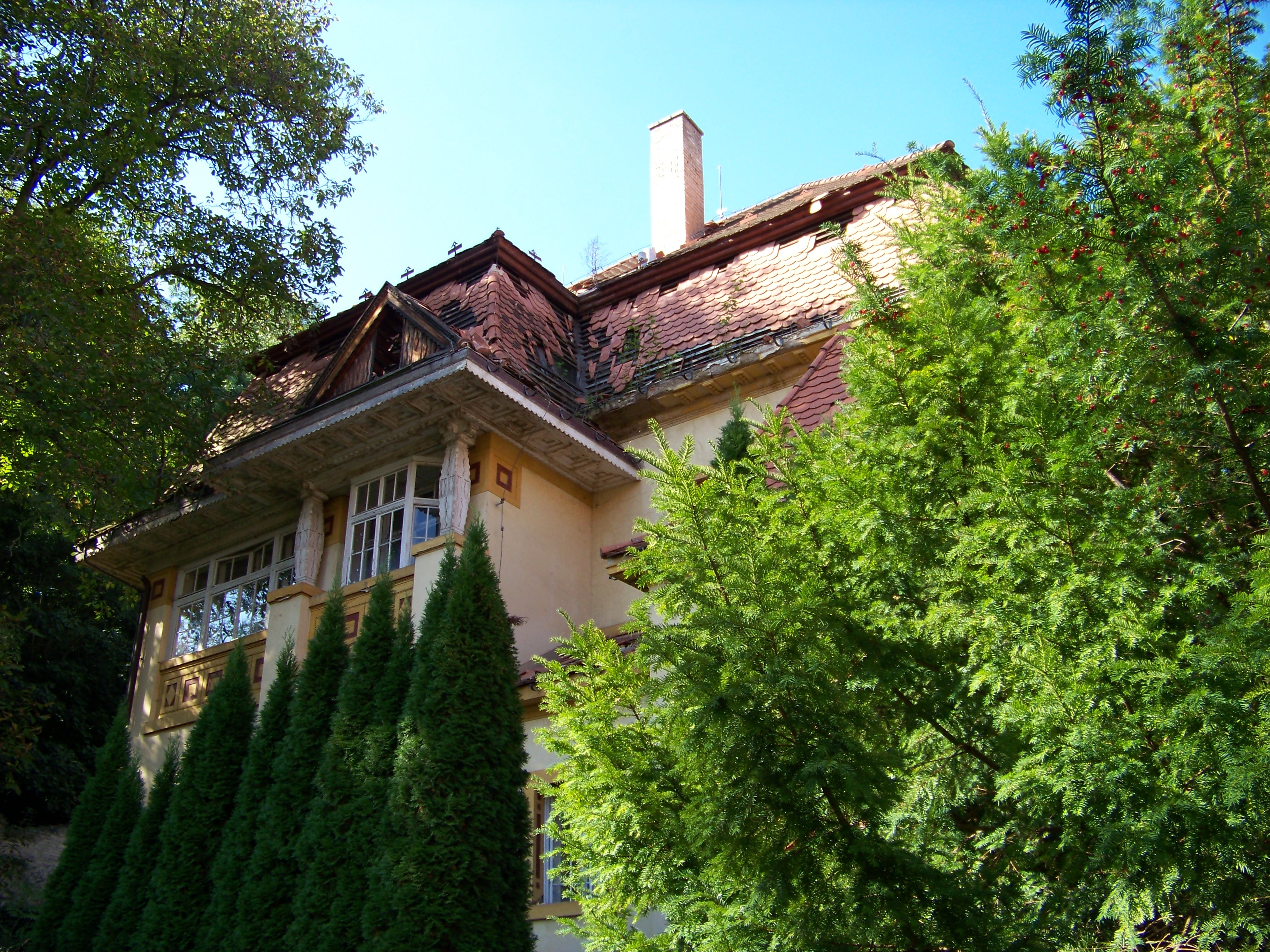 Prague-Zbraslav, Czech Republic. Bartoňova 630, a villa of František Storch.